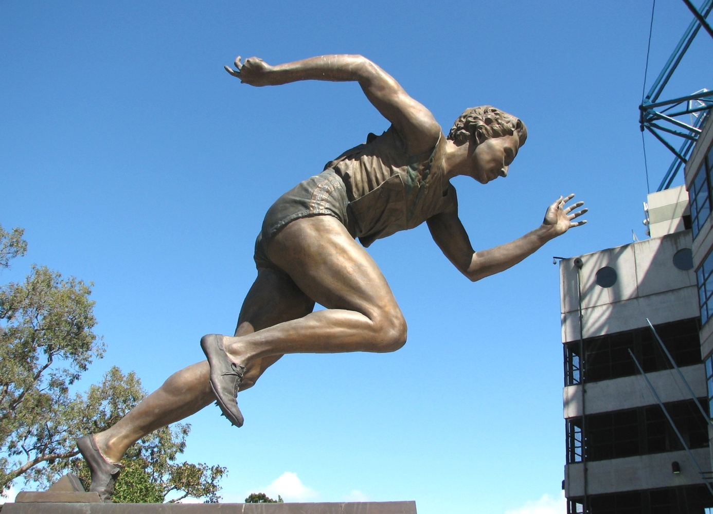 Statue of Shirley Strickland outside the Melbourne Cricket Ground. Sculptor: Louis Laumen.